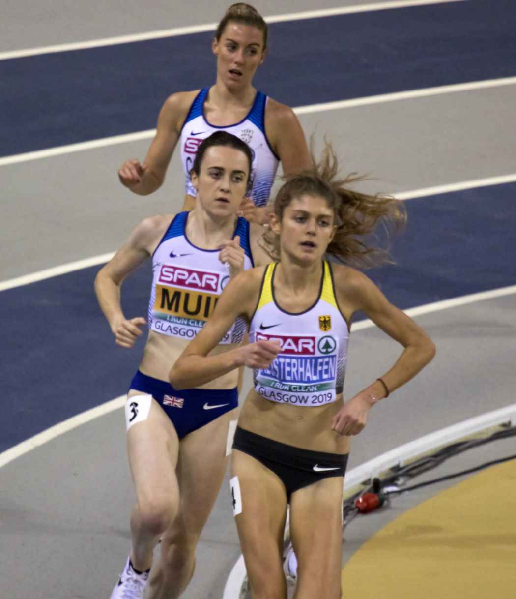 women's 3000m final, Glasgow 2019